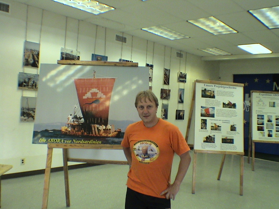 The experimental archaeologist behind the Abora project Dominique